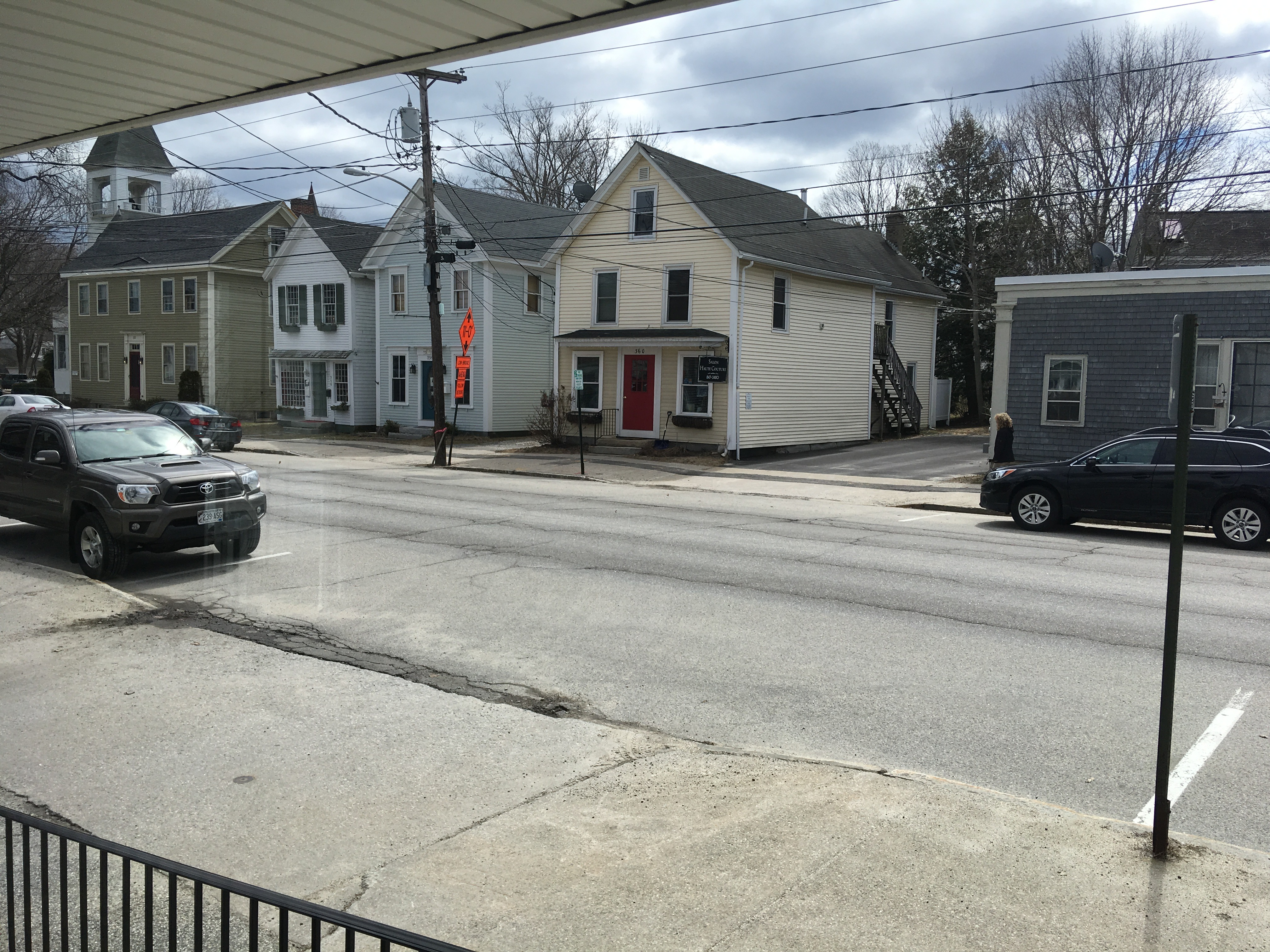 A view of the southern side of Yarmouth's Main Street in its Upper Village section